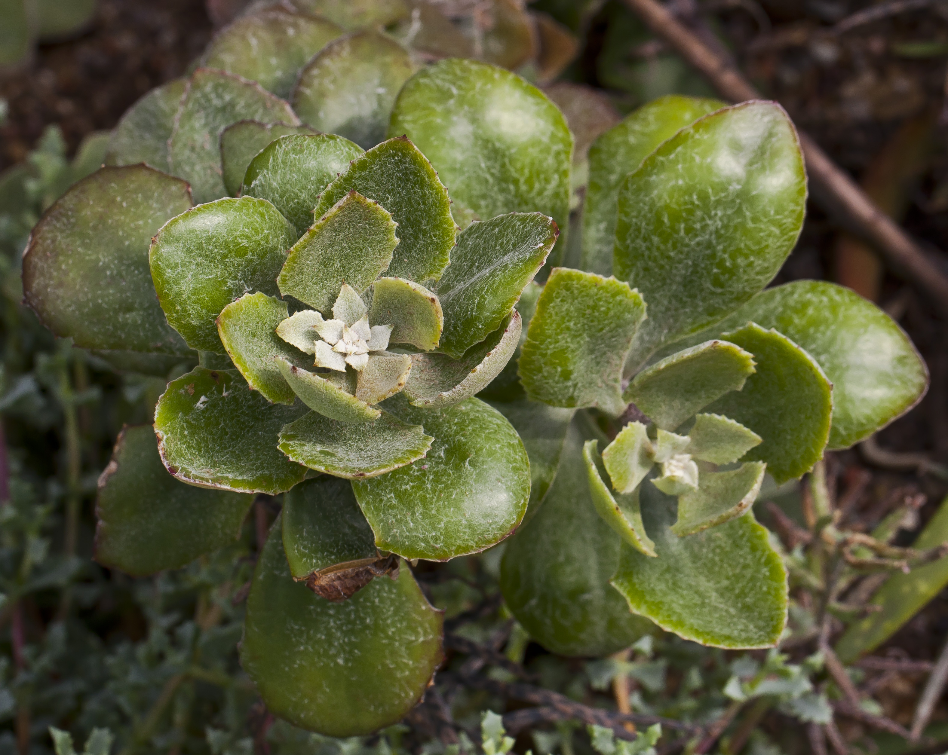 Senecio medley-woodii, Tallinn Botanic Garden, Estonia